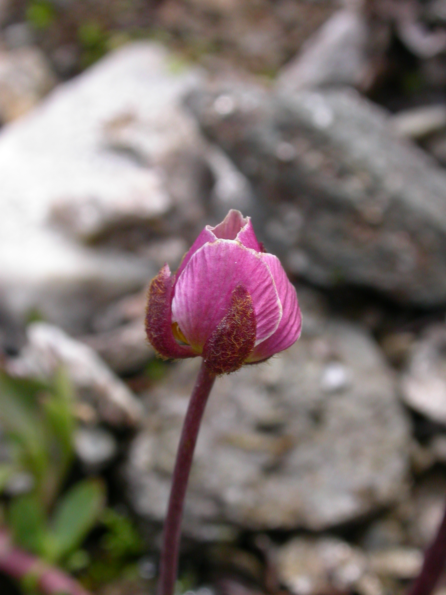 Ranunculus glacialis Zermatt, Riffelberg (Kanton Wallis, Switzerland), 2500 m Author: Barbara Studer – own photograph Date: 2.08.06